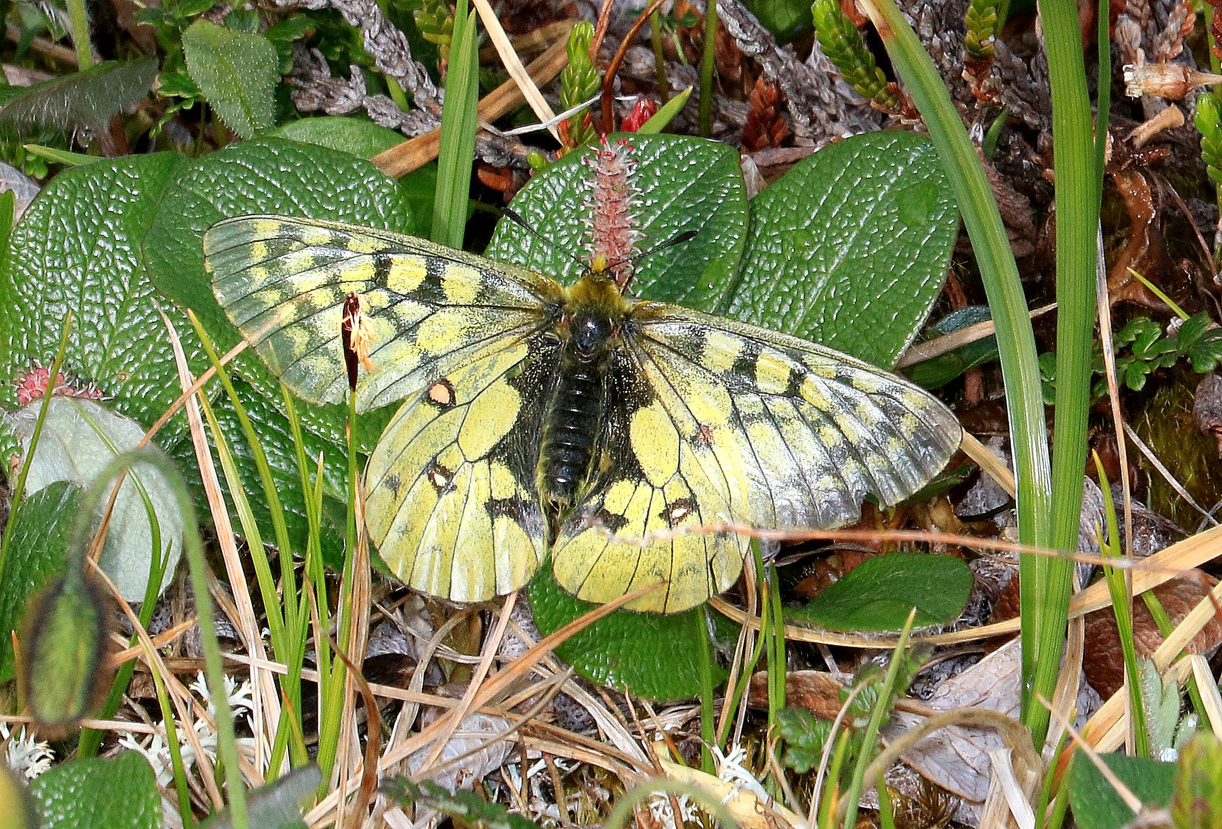 Butterflies of North America